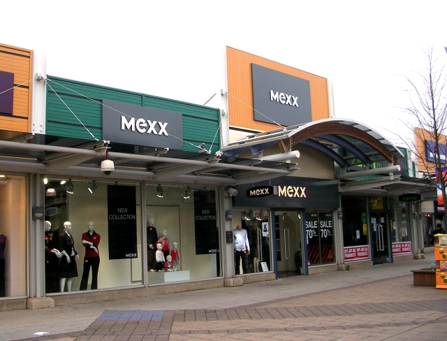 Mexx - Junction 32